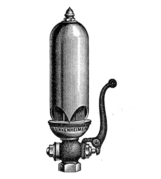 From 1912 trade catalog